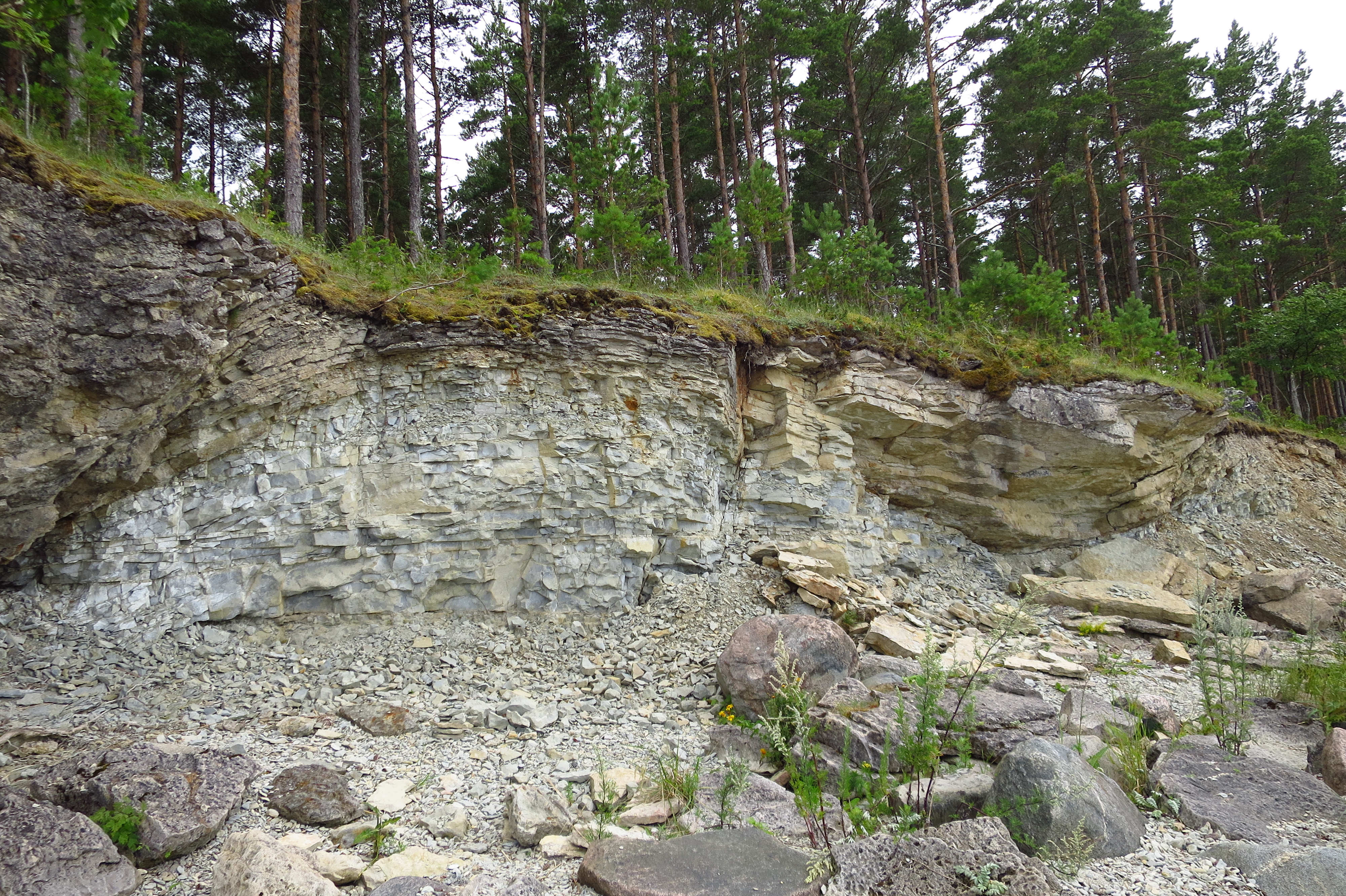 Pulli pank Saaremaal